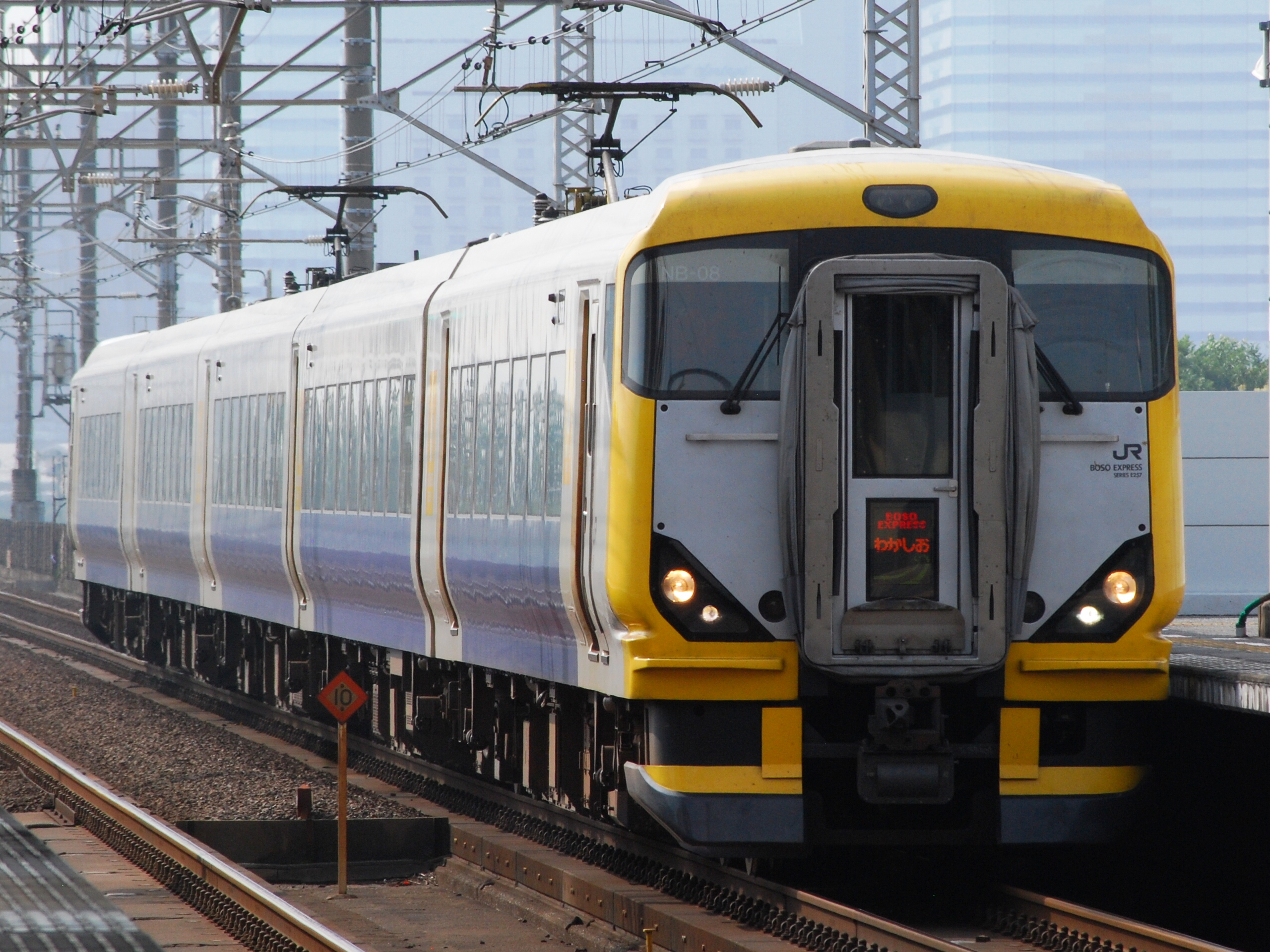 E257-500 series EMU on a Wakashio limited express service